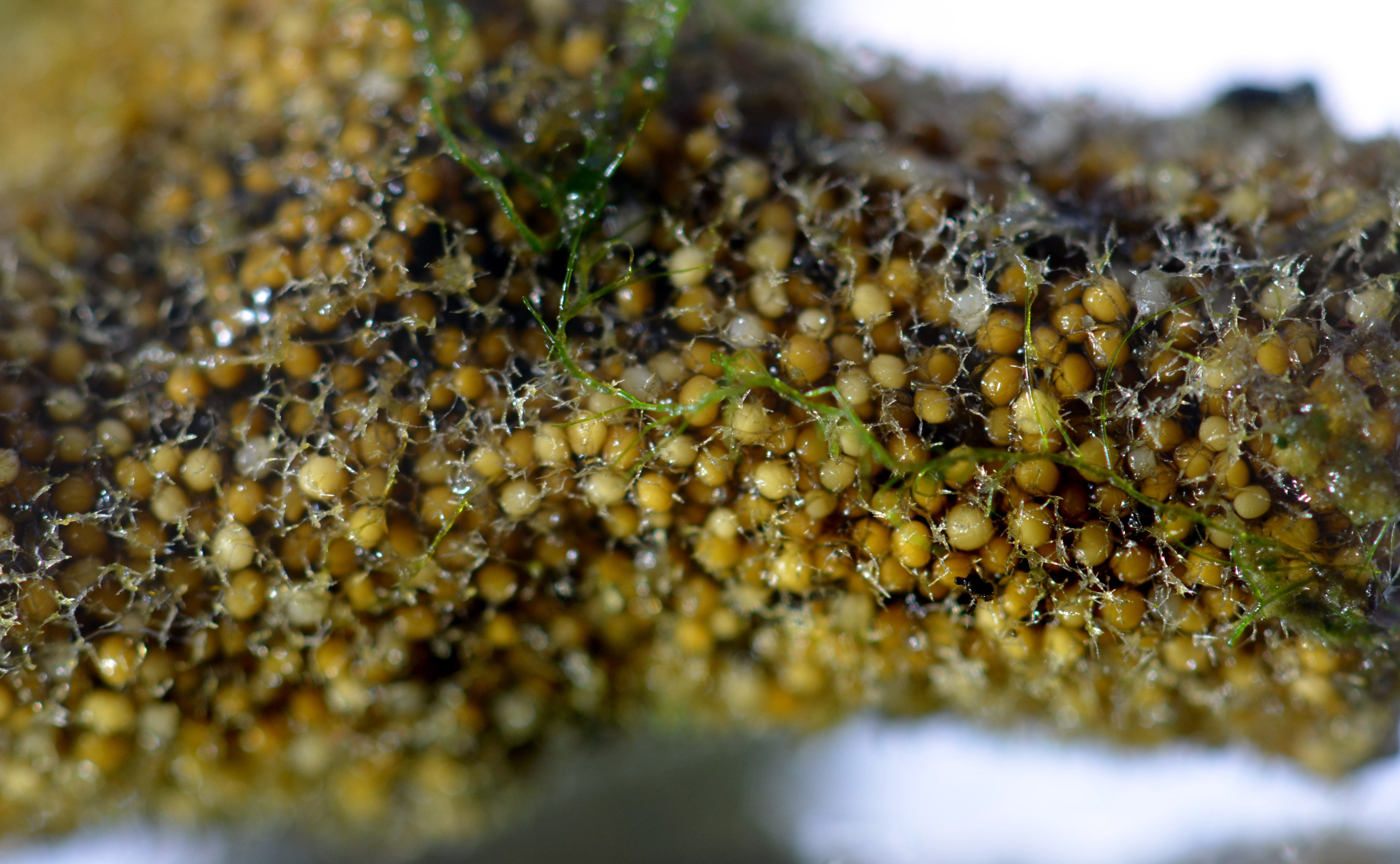 Gemmules of the freshwater sponge Spongilla lacustris (here in northern France) = resistant form of metabolic dormancy and appear in autumn.